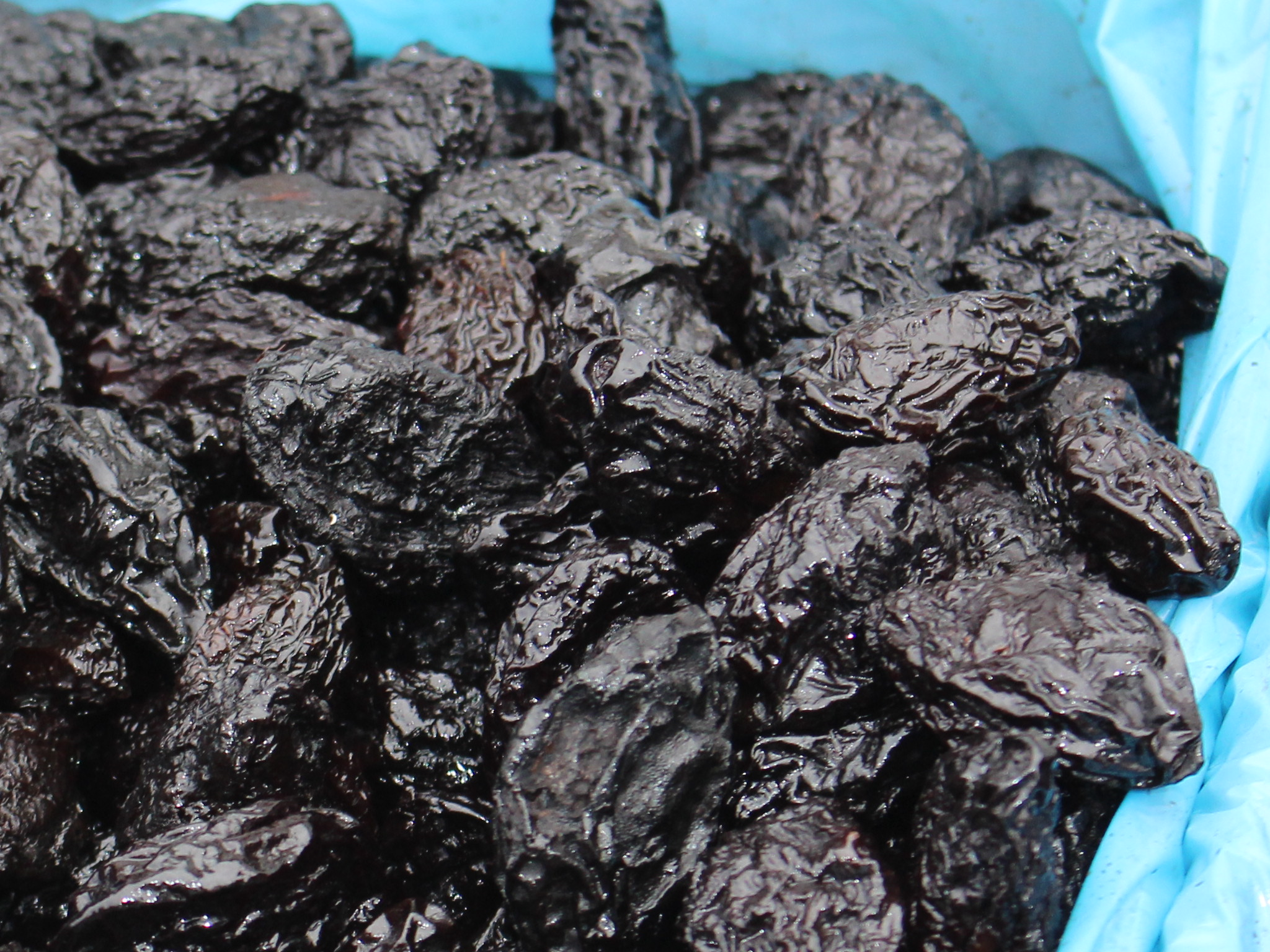 Dried plums (Prunus domestica) in Petrozsény, Transylvania.